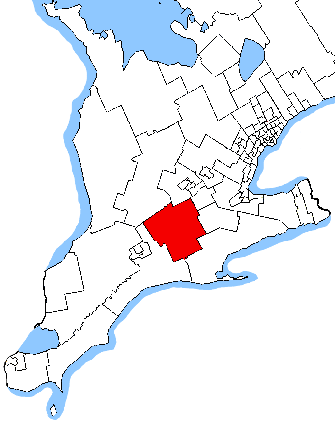 Map of the Oxford electoral district. Based on Earl Andrew's maps, created by SimonP.